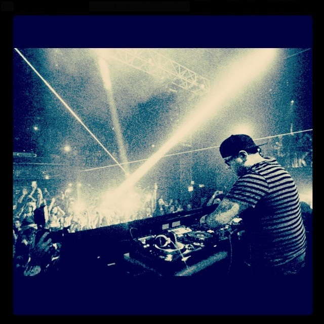 Blaq Dot in May 2015